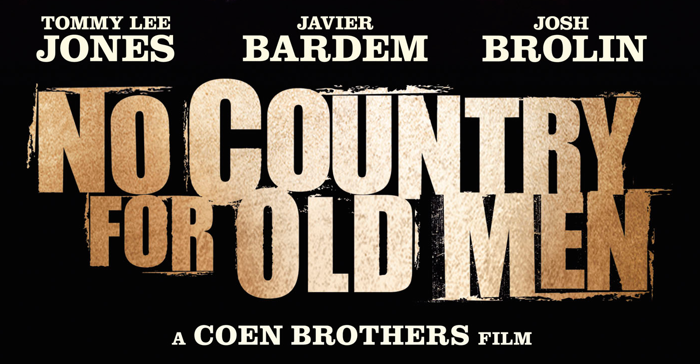 Official logo of the movie No Country For Old Men